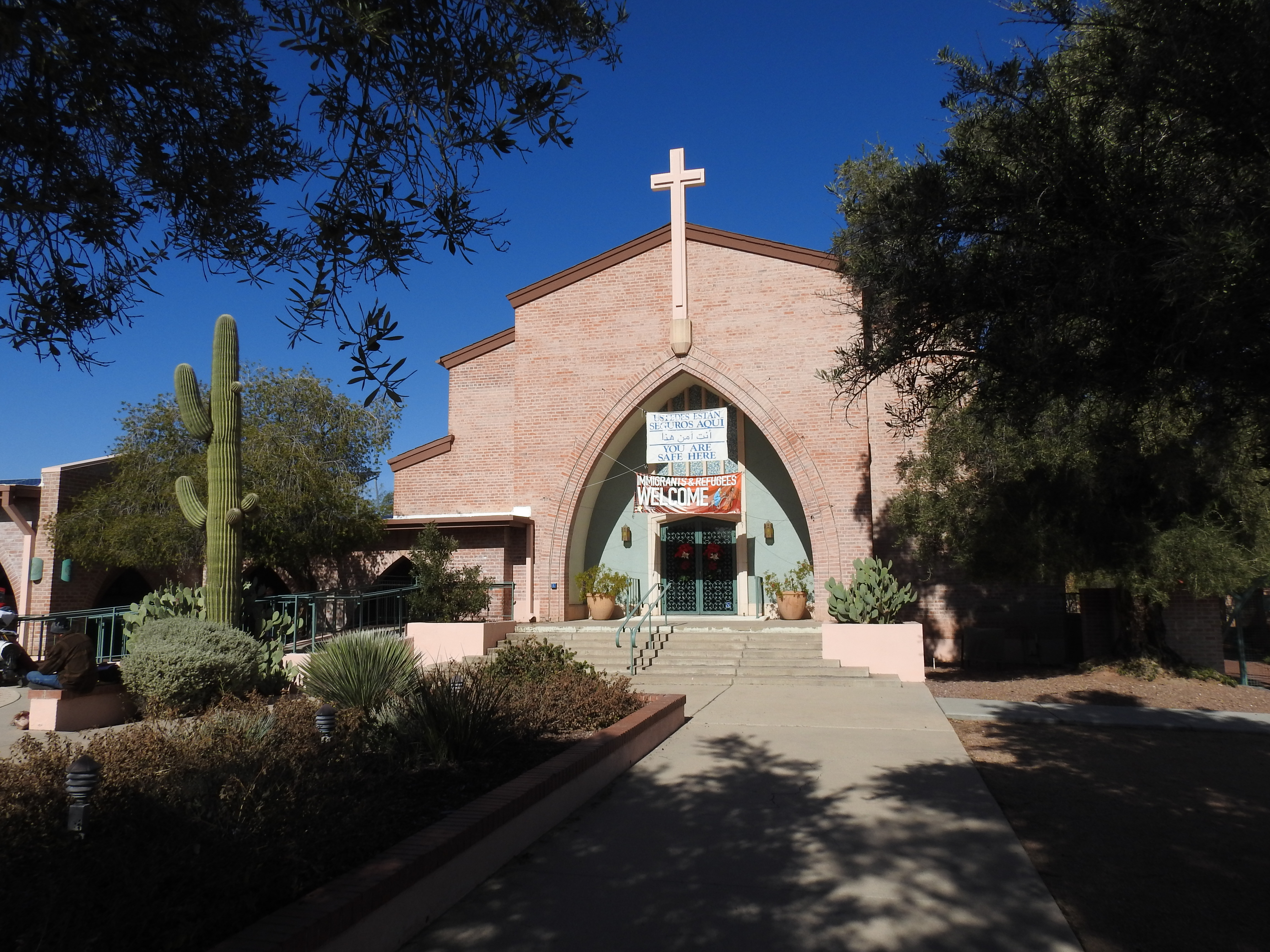 Architect: Willi Cahn (William H. Carr)